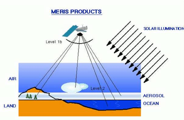 Level0, Level1b, Level2